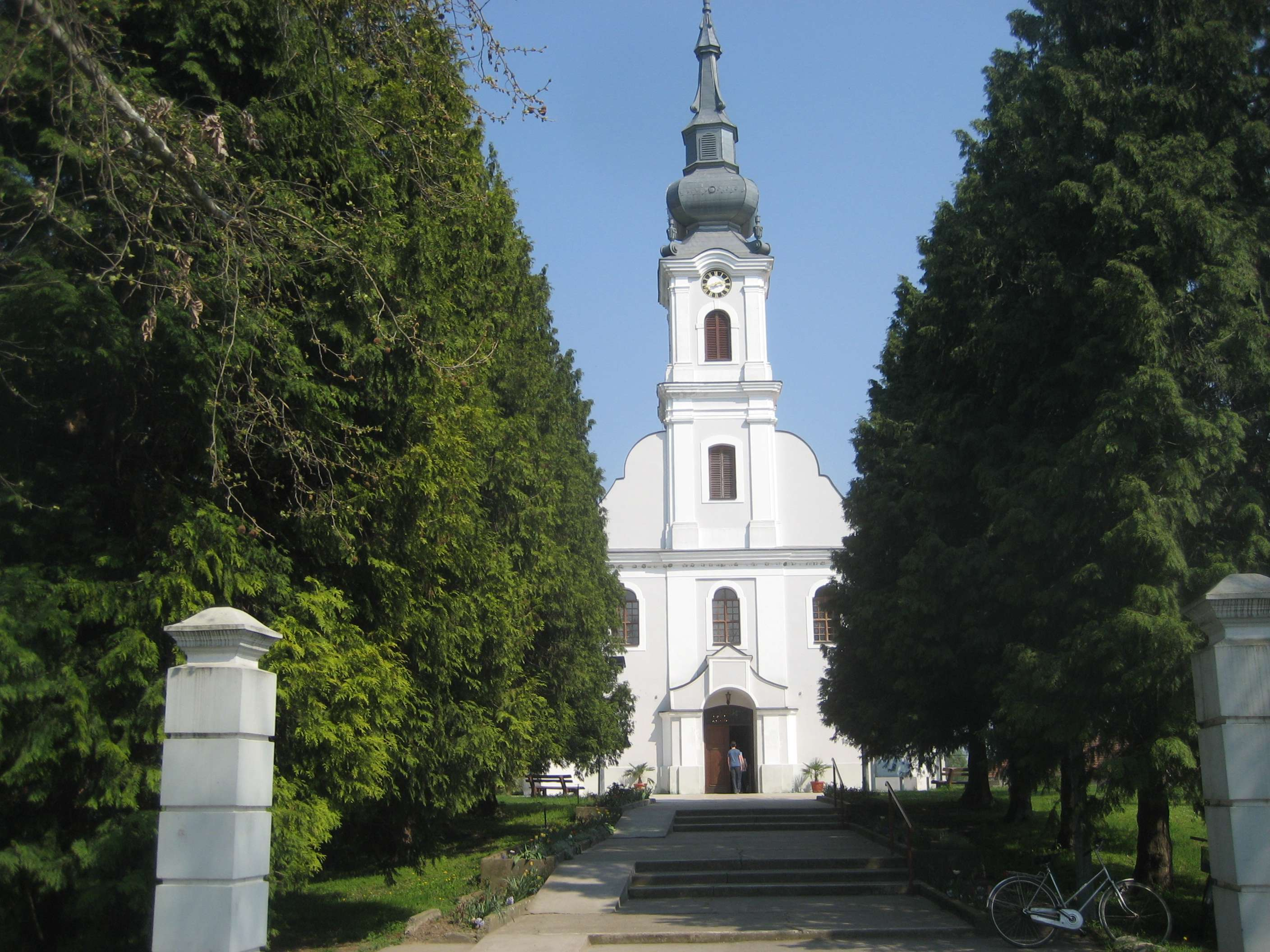 st Katarine, Nijemci, Croatia